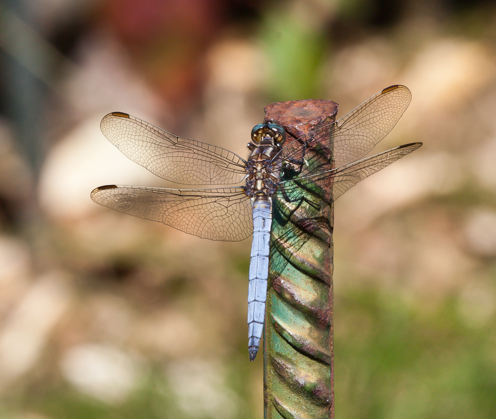 Orthetrum coerulescens. A Arnoia, Galicia (Spain)